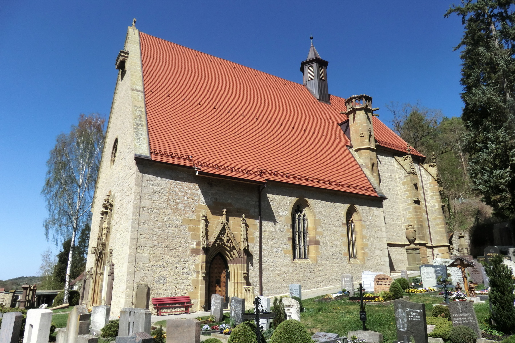 Church of God Native nameHerrgottskircheLocationCreglingen, GermanyCoordinates49° 27′ 29.3″ N, 10° 01′ 53.94″ E Established1389Website